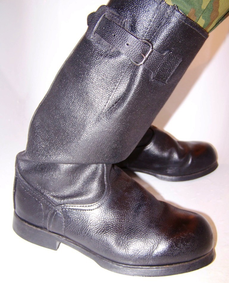 Кирзачи российского солдата